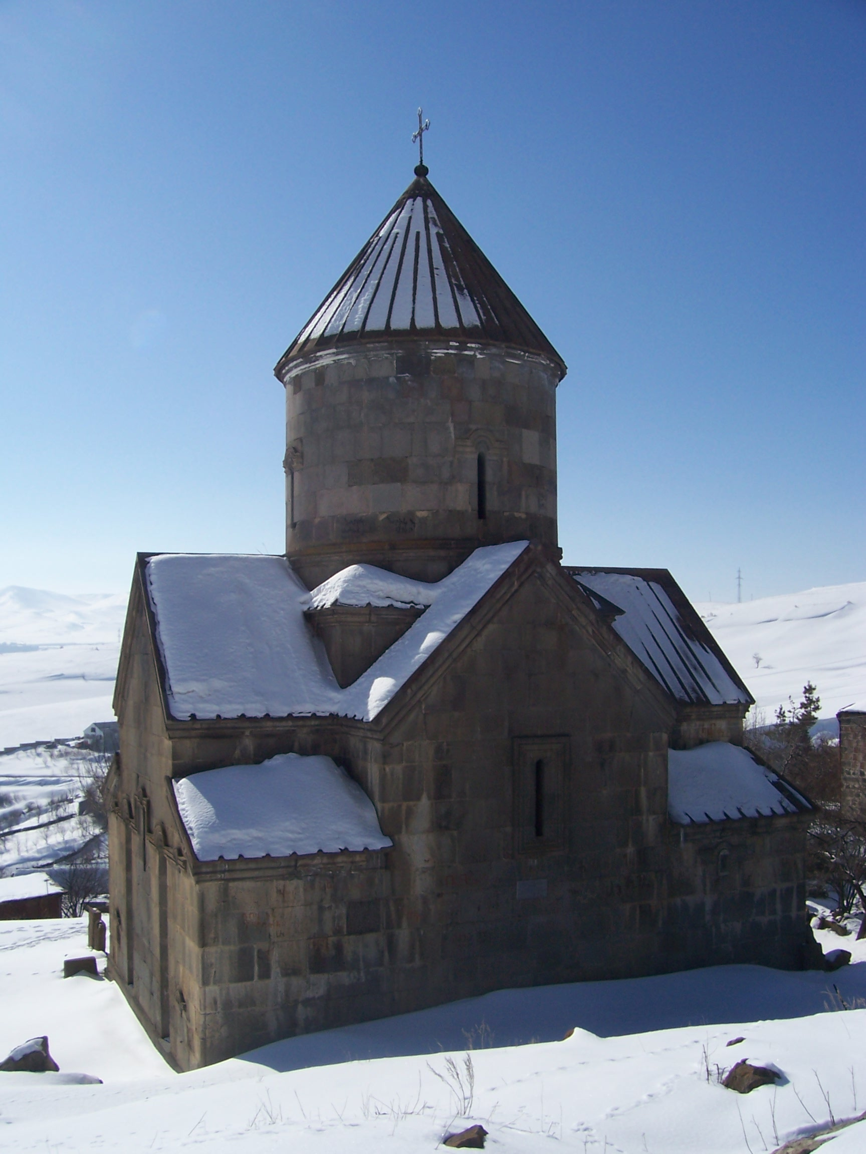 Makravank Monastery, Kotayk, Armenia. 1/59